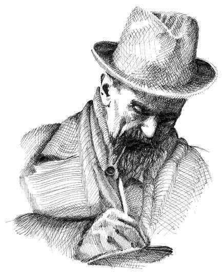 Drawing of Errico Malatesta